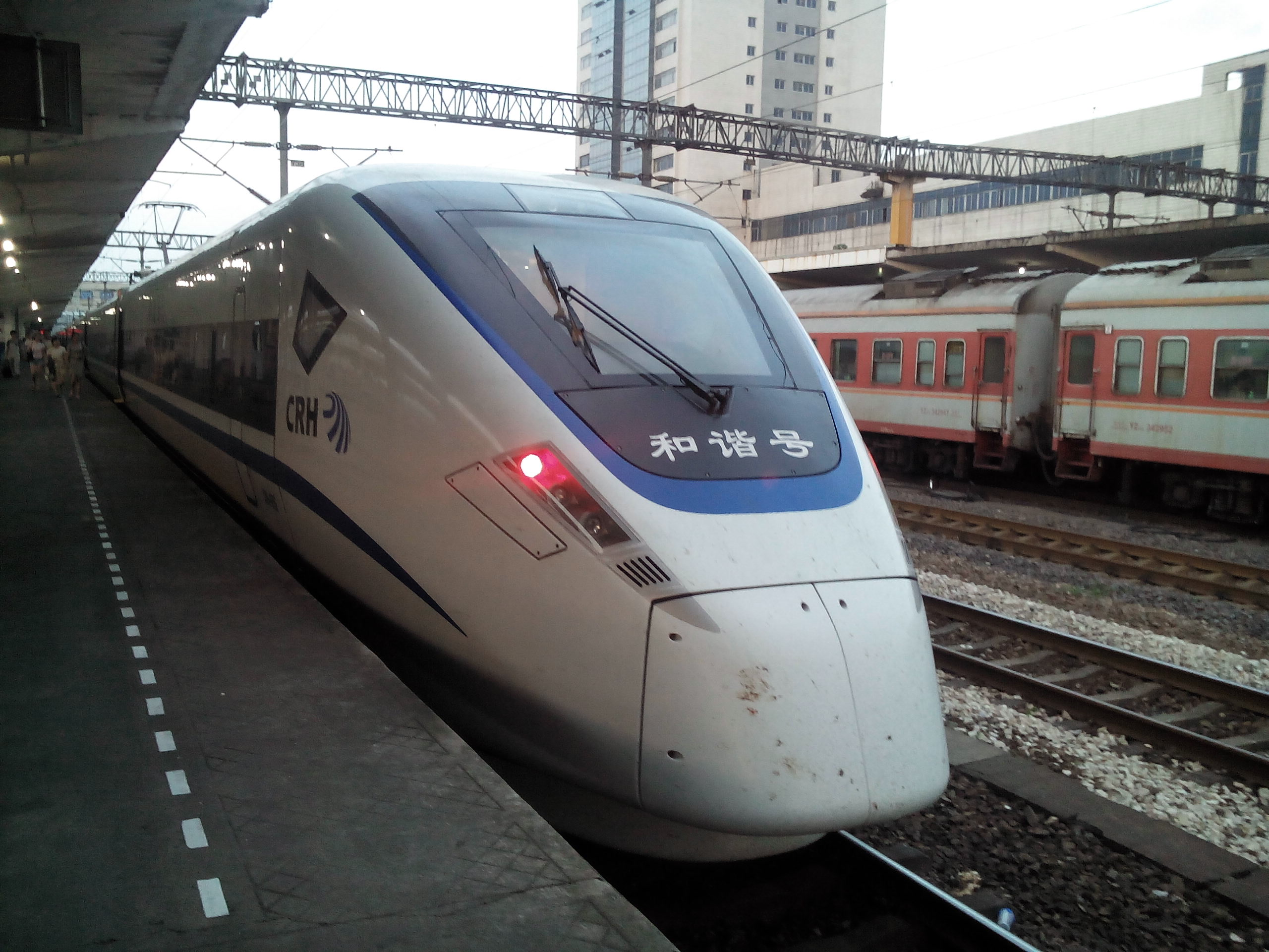 201407 D5664 at Jinhuaxi Station